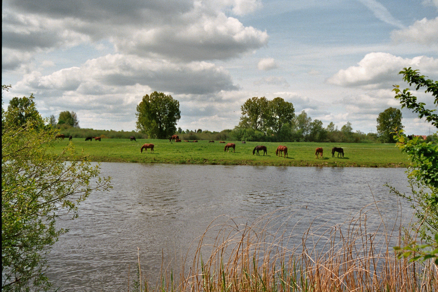 horses on grazing land Pferde auf der Dauerweide